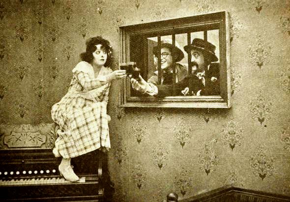 Still from the American comedy film Going! Going! Gone! (1919) with Bebe Daniels, Harold Lloyd, and Snub Pollard, on page 663 of the February 1, 1919 Moving Picture World.